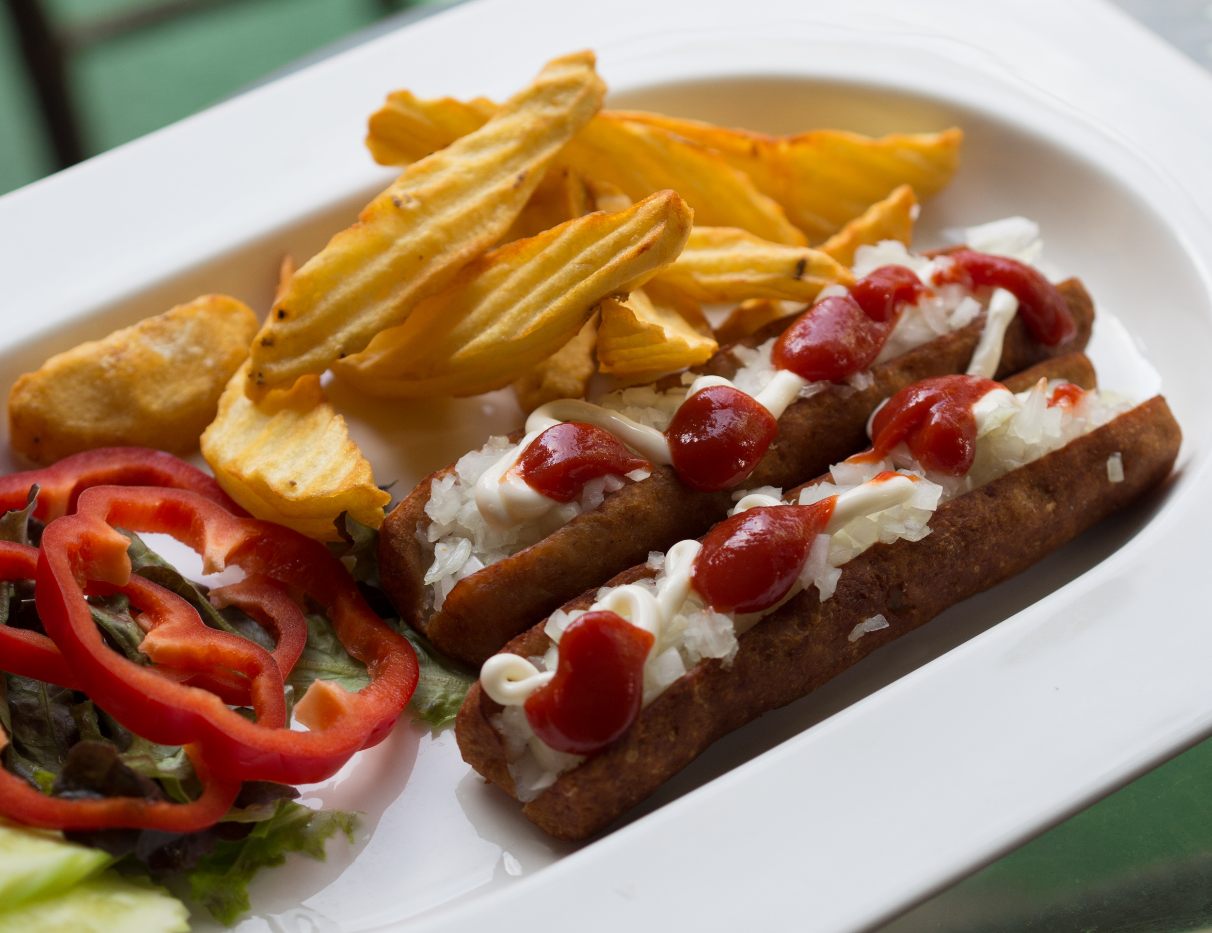 Two Frikandellen speciaal with home made fries in a Dutch-run restaurant in Chiang Mai, Thailand. The frikandellen were not factory-made in the Netherlands, but made by a retired Dutch butcher in Chiang Mai and actually tasted better than the "real" thing.